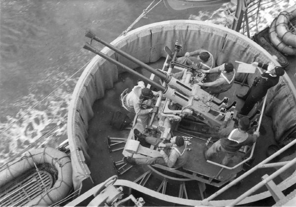 Bofors 40 mm gun onboard the Swedish cruiser HMS Tre Kronor.